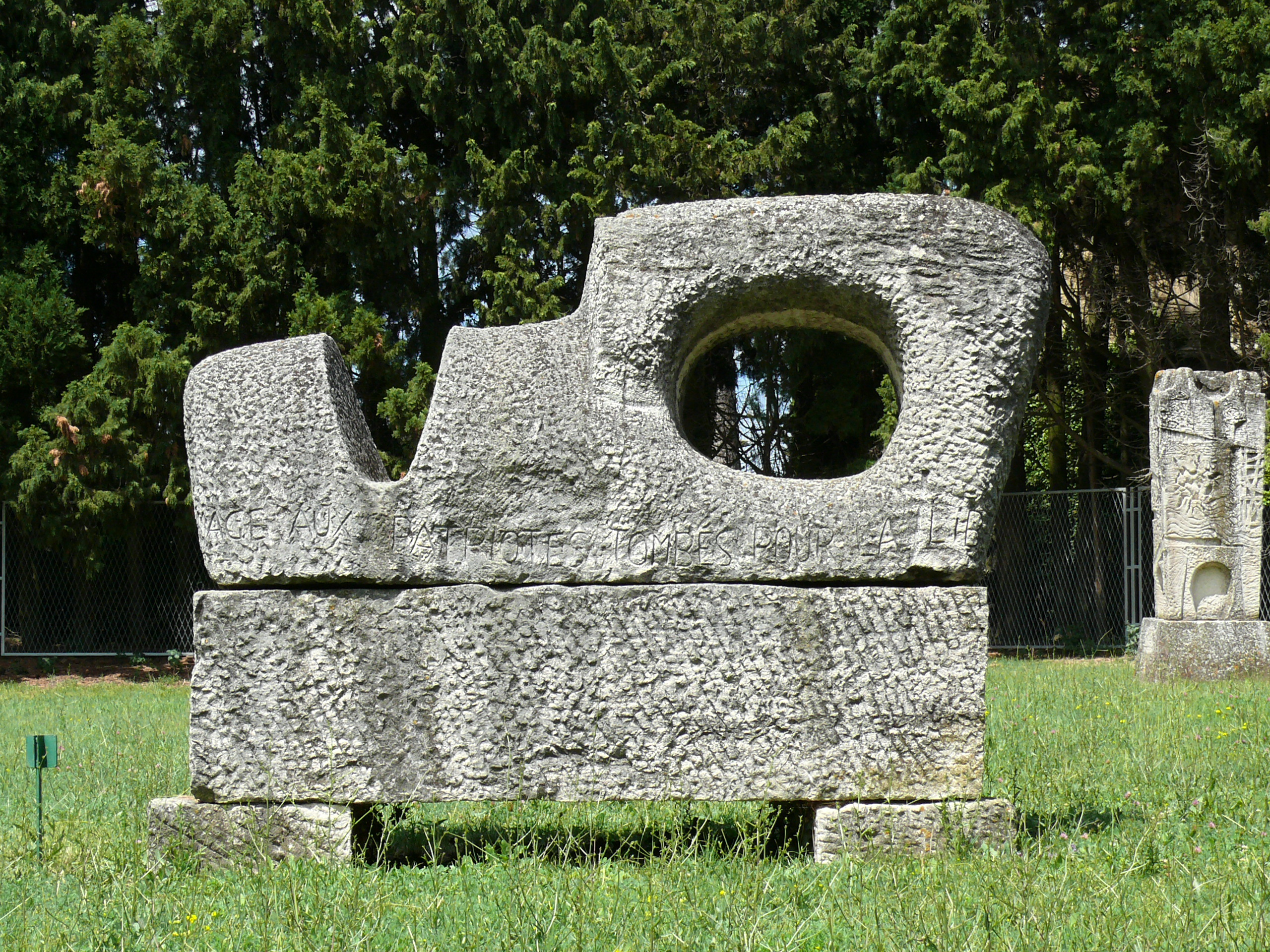 Achiam (1916–2005) Alternative names Birth name: Ahiam ShoshanyDescriptionFrench-Israeli sculptorDate of birth/death 10 February 1916 26 March 2005 / 26 February 2005Location of birth/death Beït-Gan ParisWork location Île-de-FranceAuthority control : Q1887115 VIAF: 56508417 ISNI: 0000 0003 5471 5952 ULAN: 500191992 LCCN: nr96018740 GND: 110682696 WorldCat creator QS:P170,Q1887115